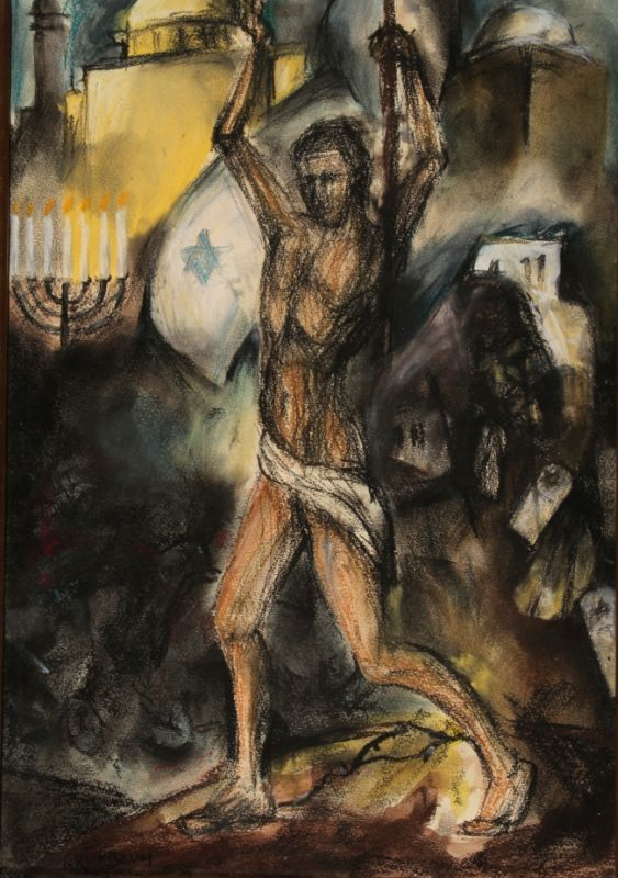 Jesus in Front of a Synagogue